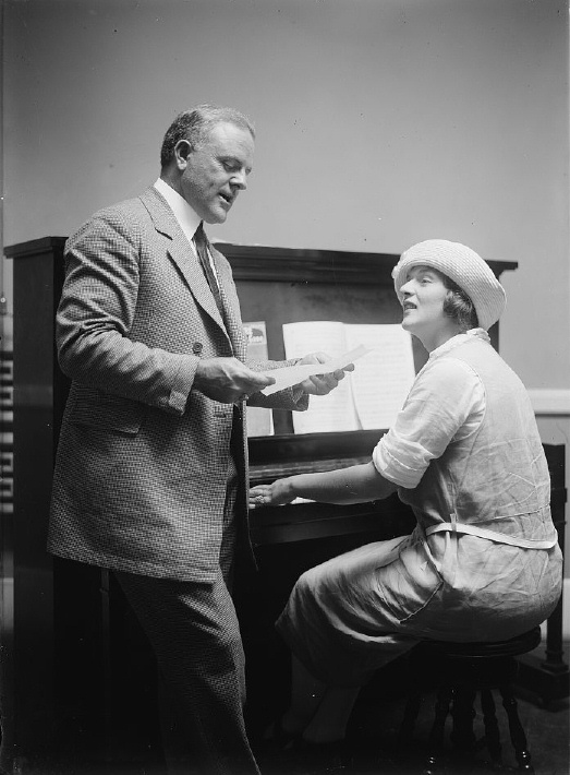 Singers Billy Murray (standing and looking at paper, probably sheet music, he is holding) and Aileen Stanley (seated at an upright piano)